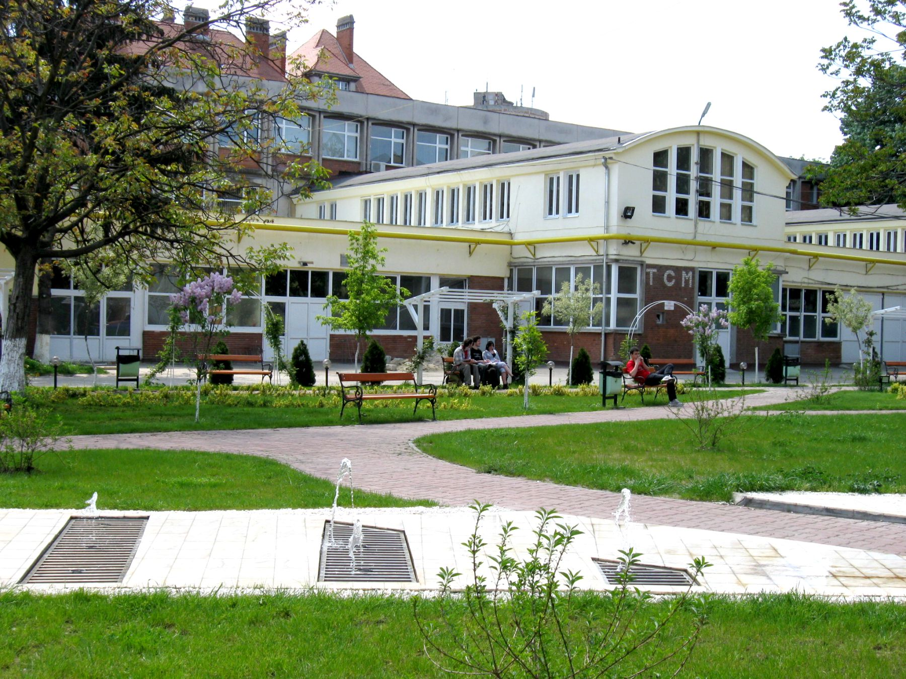 Laboratories of machines construction technology (TCM), Faculty of Mechanical Engineering of Timisoara.